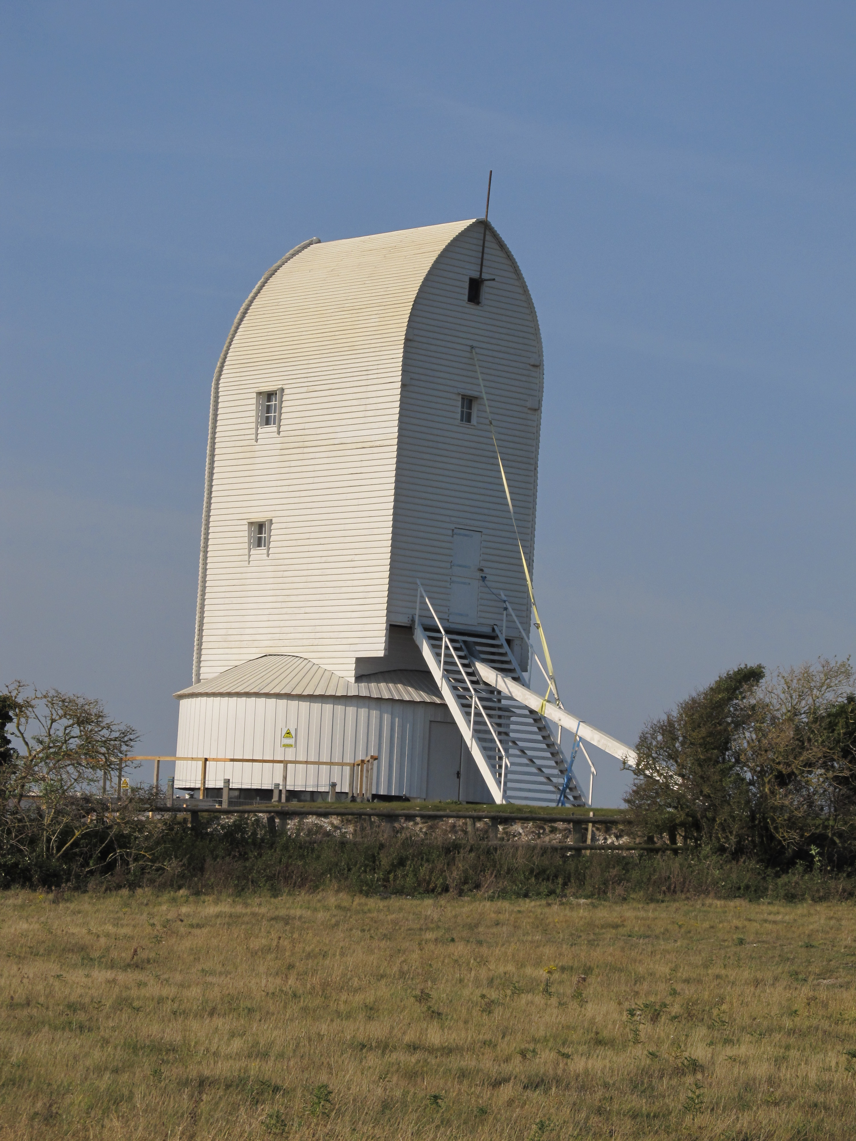 Modern recreation of Ashcombe post mill at Kingston near Lewes, East Sussex, England.